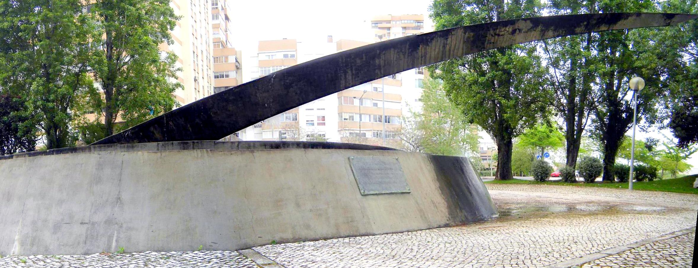 Monumento em Lisboa em memória a Afonso Costa, situado na Av. Afonso Costa